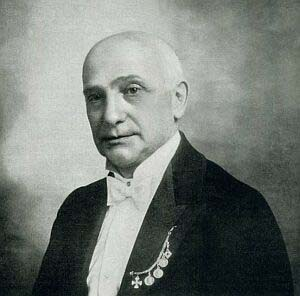 'Maestro' Enrico Cecchetti (1850-1928) Italian born former ballet dancer and dancing teacher